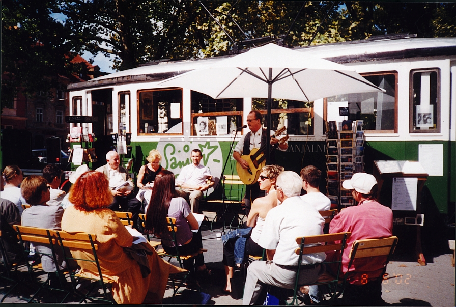 Begginings of Festival Sanje.